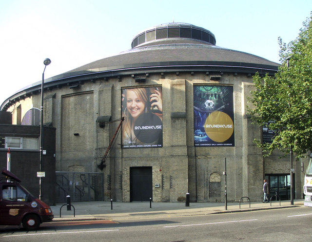 The Roundhouse, Chalk Farm Road, London NW1 Looking across Chalk Farm Road, we have the Roundhouse theatre.